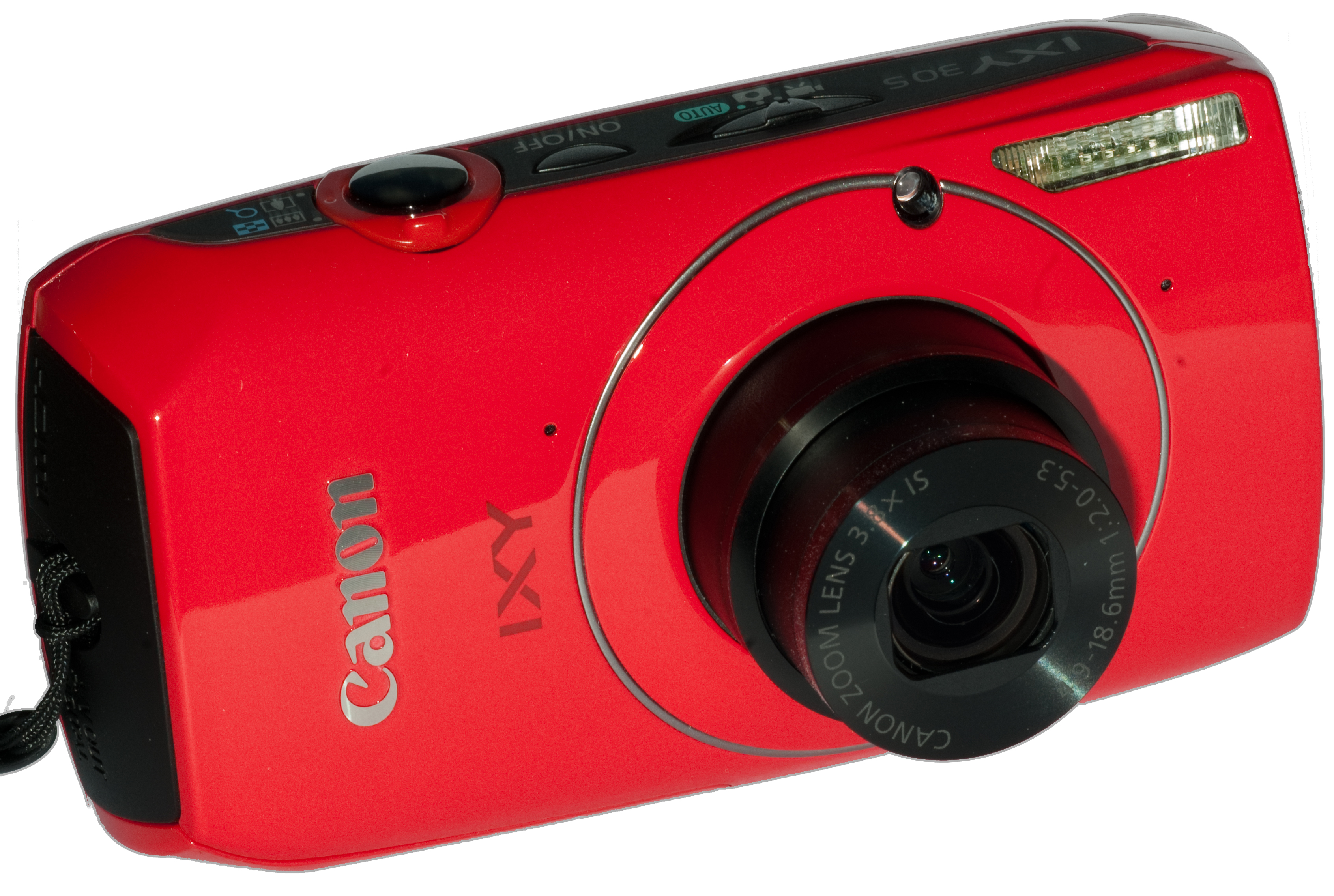 Canon PC1473 type camera photo